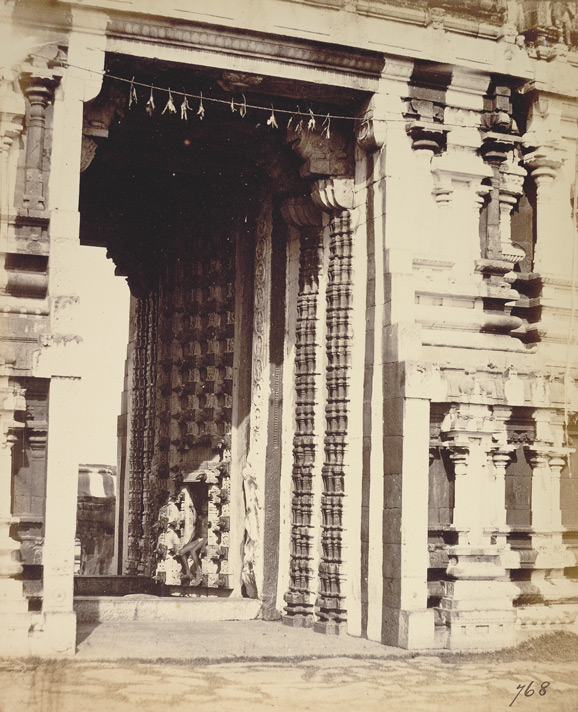 Photograph of the entrance gopura of the Kailasanatha Temple at Taramangalam in Tamil Nadu, taken by an unknown photographer in c.1870, from the Archaeological Survey of India Collections. This temple, dedicated to Shiva, bears inscriptions from the Hoysala, Pandya and Vijayanagar periods. Part of the temple existed as early as 1260 but the majority was built in the first half of the 17th century. The temple consists of many enclosures or prakarams, entered through a pyramidal gopura, a five tiered gateway covered with stucco figures of the various divinities. This view shows the entrance at the base of the gopura. The temple has remarkable sculptures depiciting scenes from the Ramayana, and figures of tortoise, fish, monkeys and crocodiles carved on the walls and the granite roof.